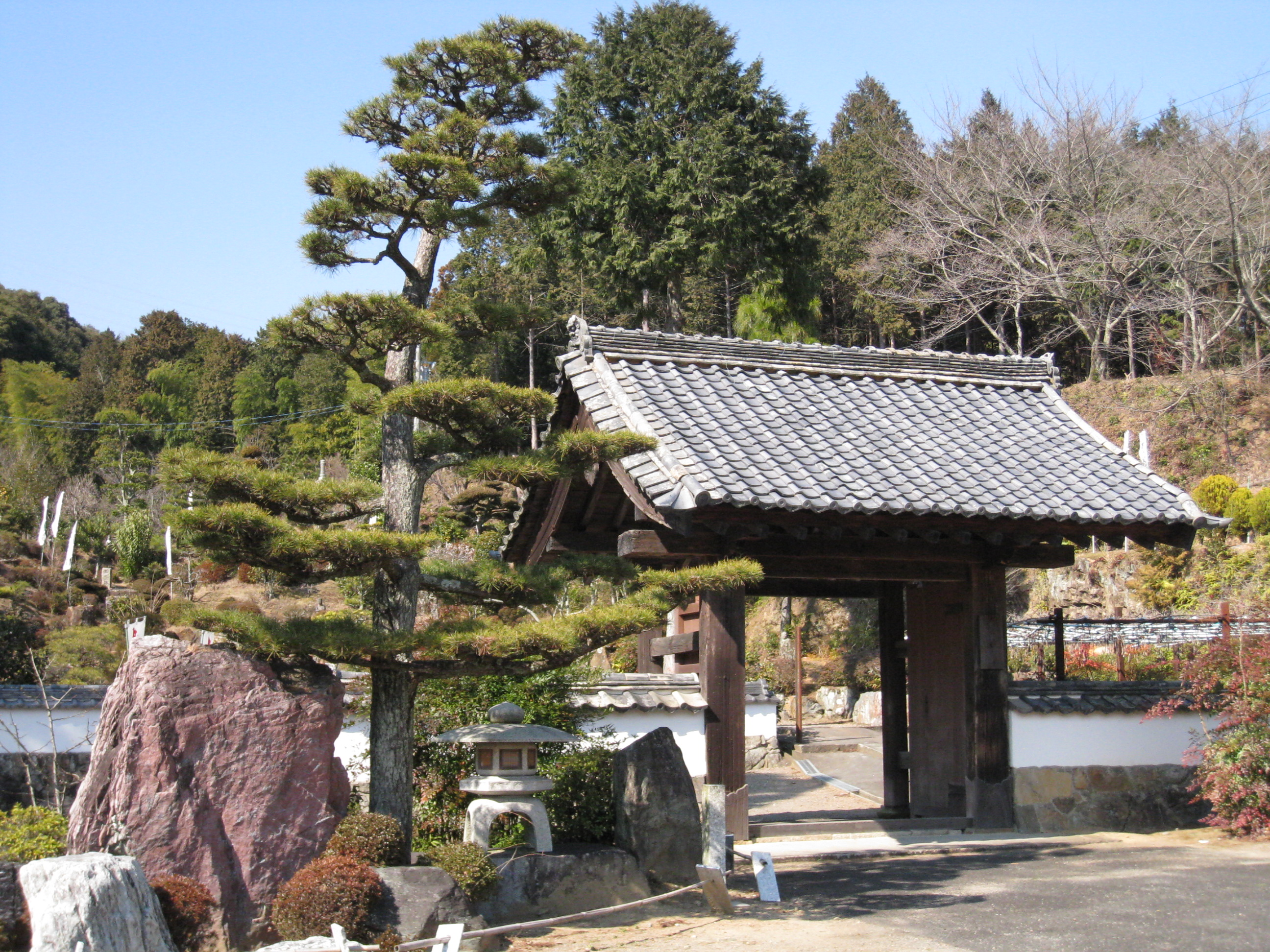 Ryugenji Temple (龍源寺 Ryūgenji), located at 17 Daimon, Hagi-cho, Toyokawa, Aichi, Japan